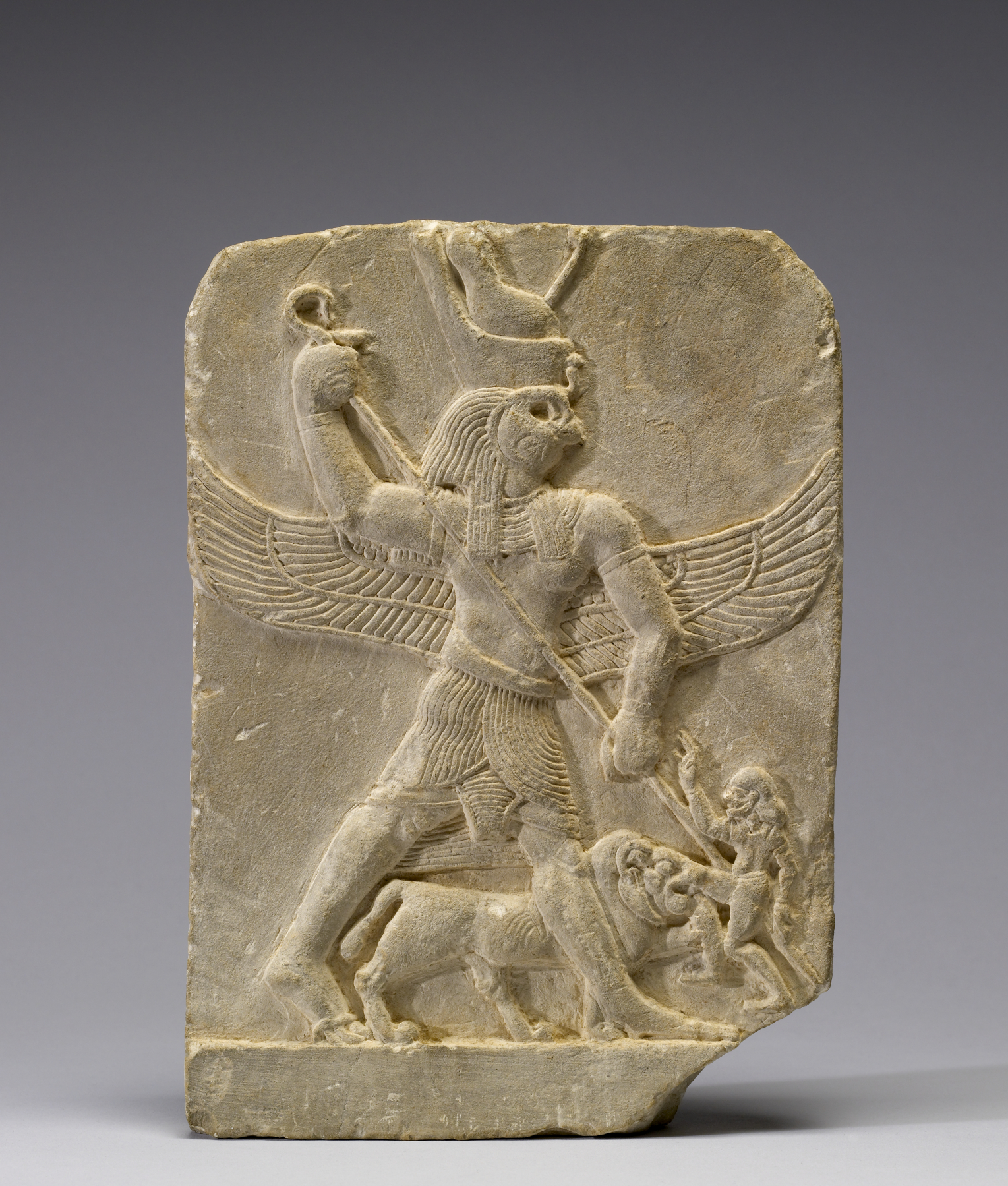 Carved in low relief, Horus is depicted with a hawk's head and double-crown, spearing a man who is also attacked by a lion.